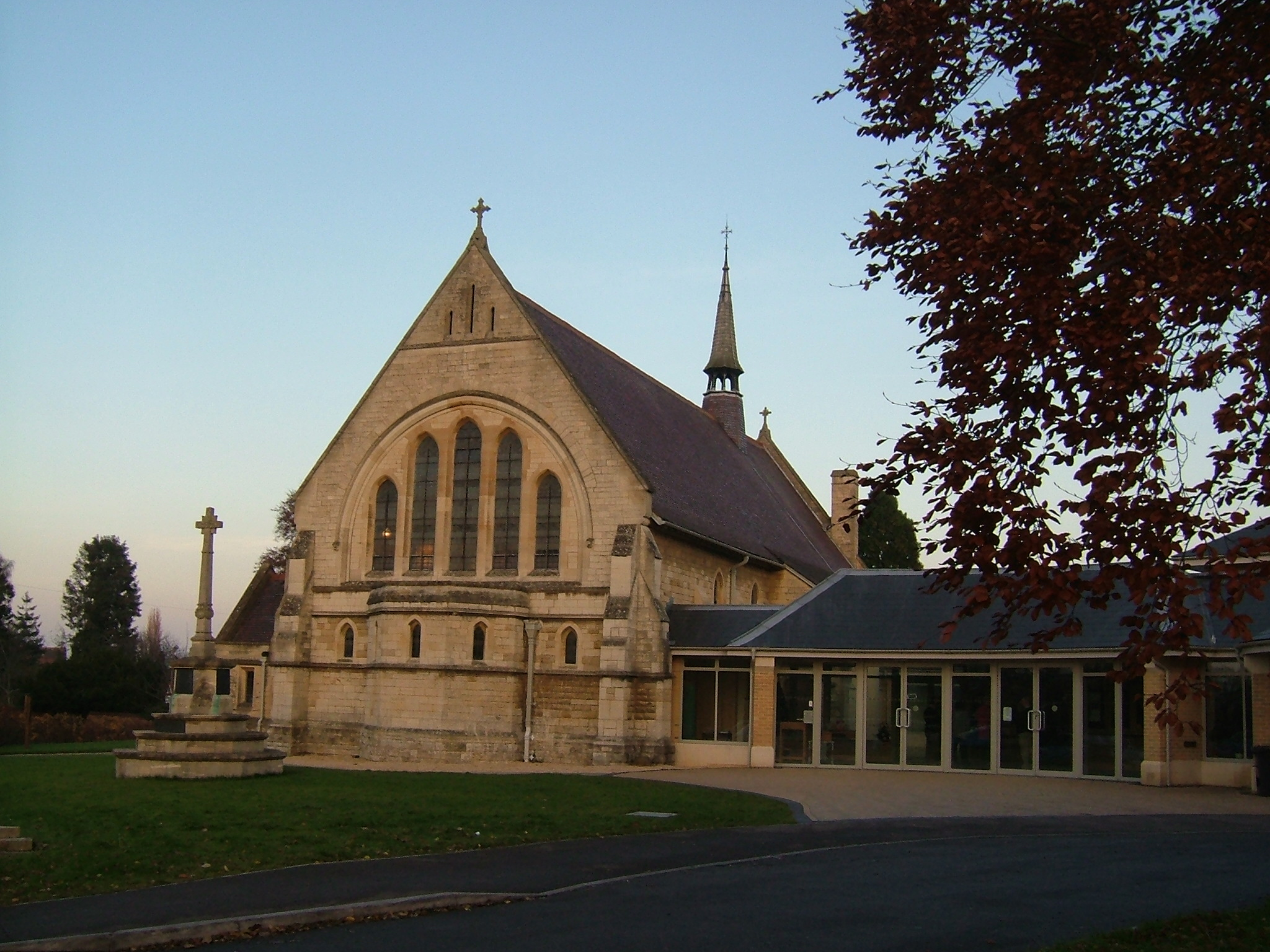 St Andrew's parish church, Churchdown, Gloucestershire, England, seen from the southwest